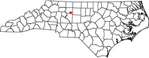 A map indicating the location of the town of Wallburg within the state of North Carolina.